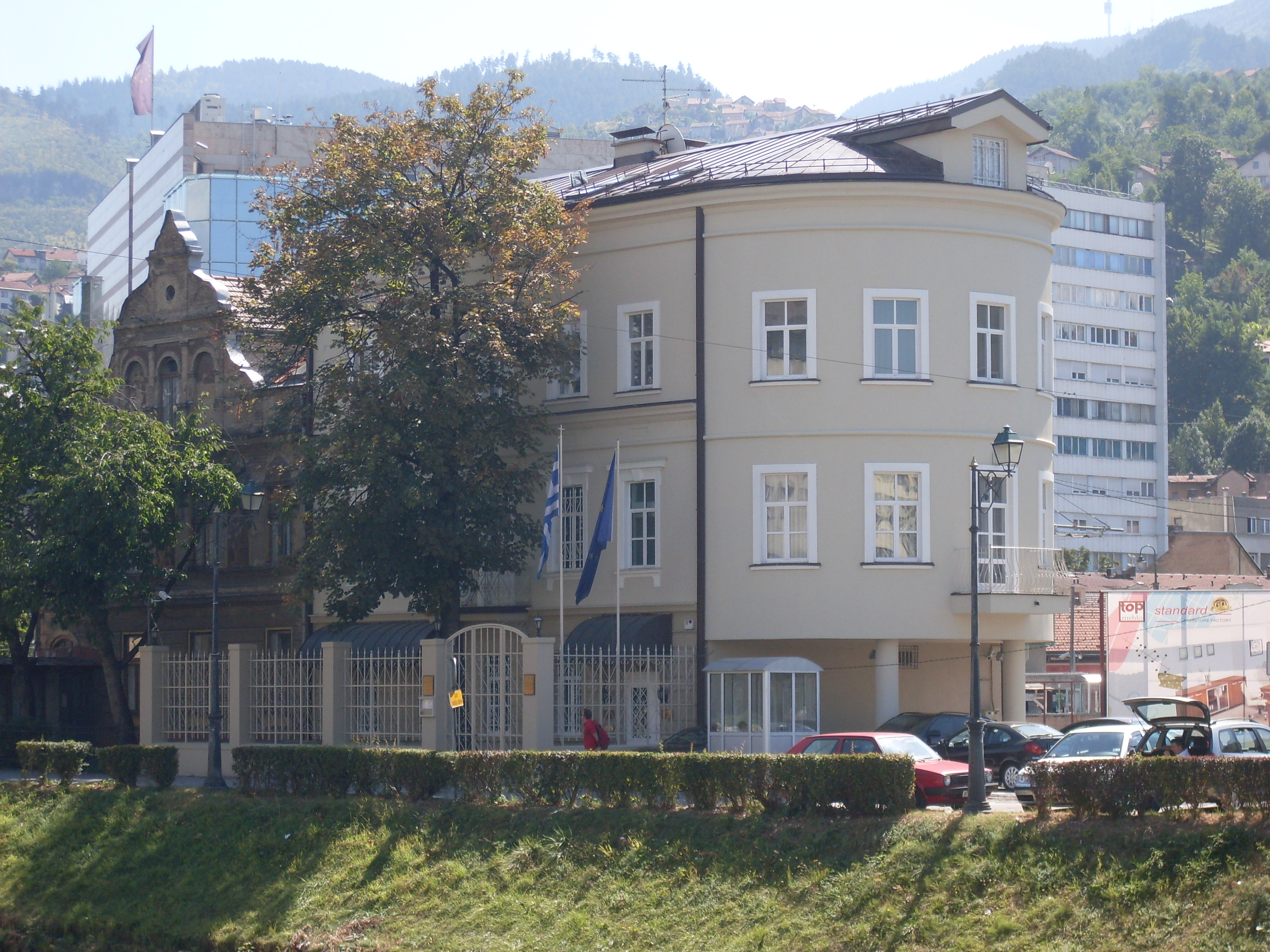 Embassy of Greece in Sarajevo